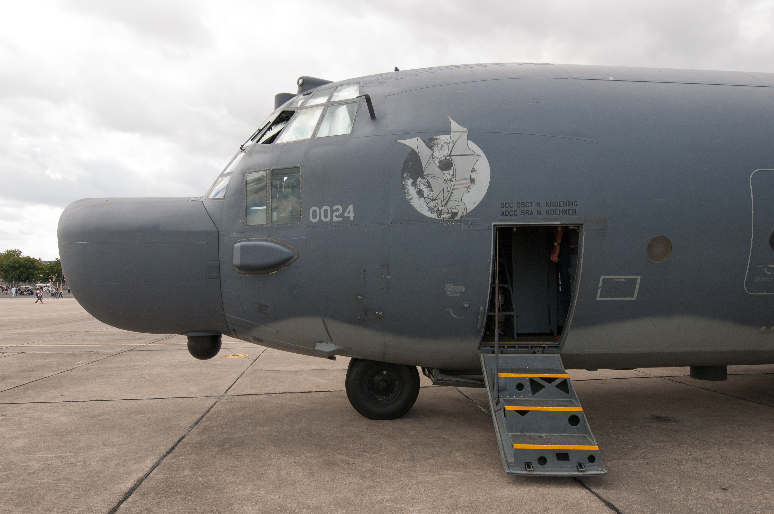 A Lockheed Hercules MC-130H Combat Talon II on Wiesbaden Army Airfield during Open House Day commemorating 60th Berlin Airlift Anniversary on June 29, 2008.